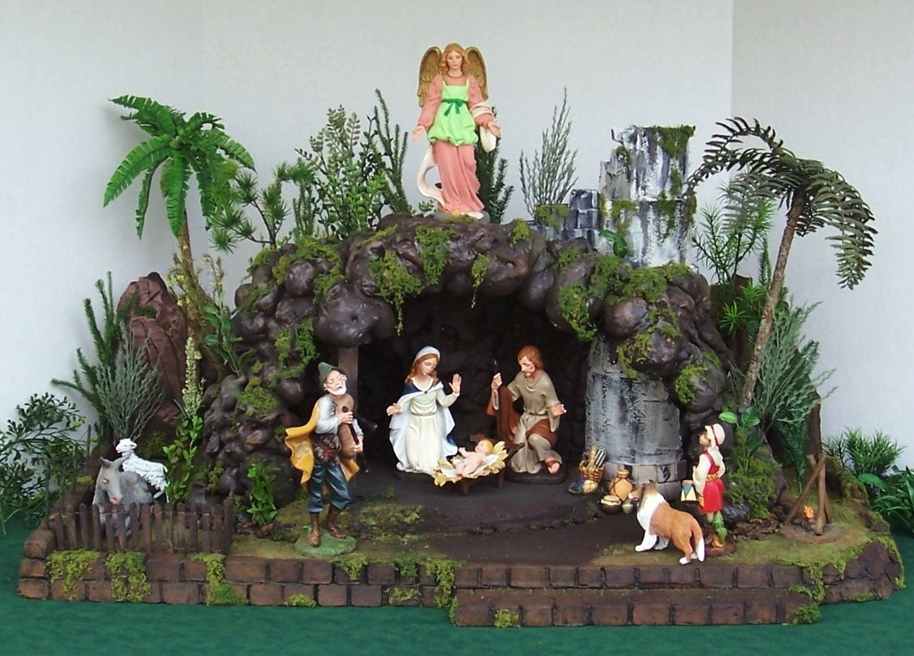 Nativity scene made by crèche artist Bill Egan in Florida. Figures are hand painted by the artist.